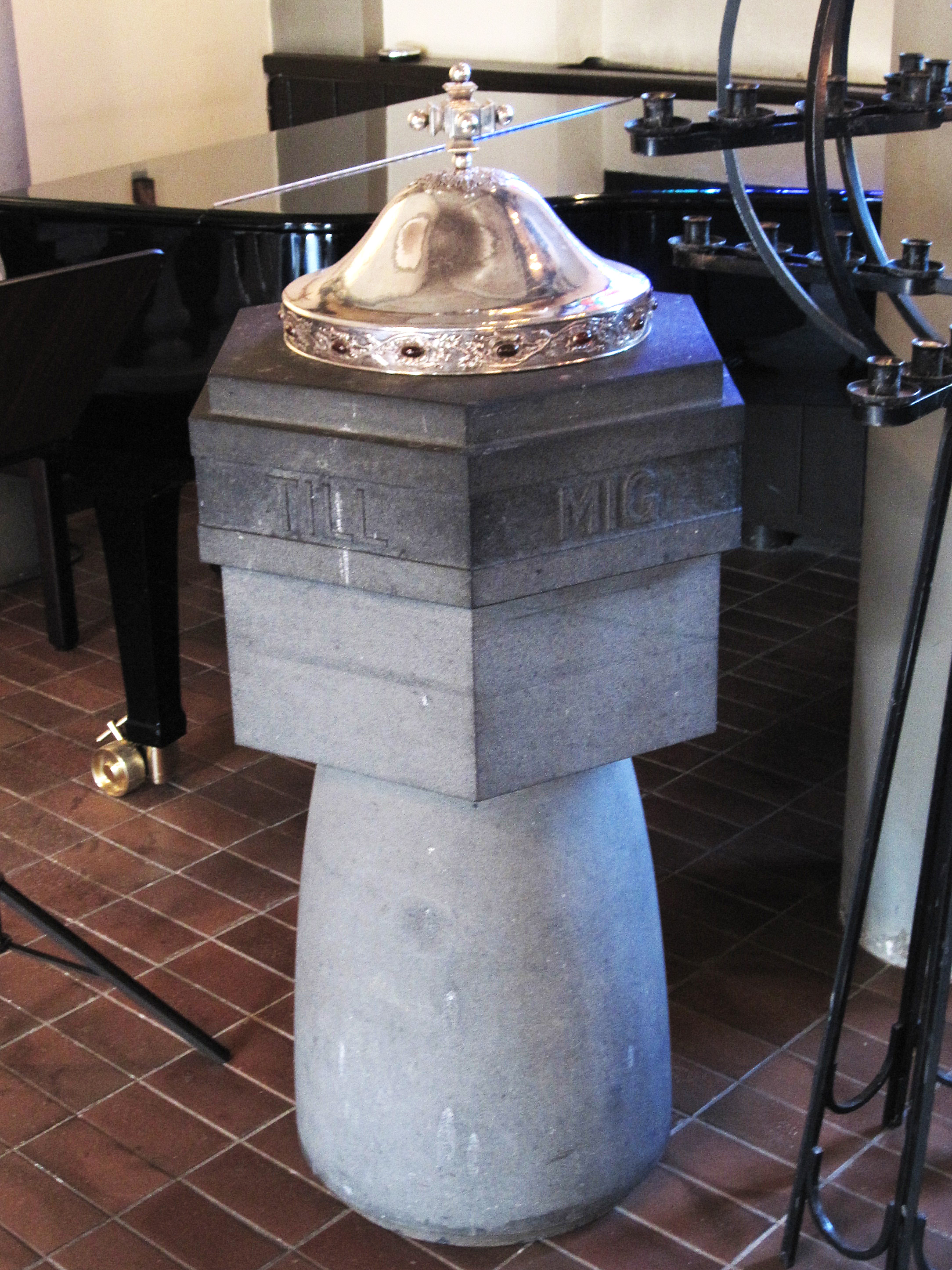 The baptismal font of the Saint George Church in Mariehamn, Åland, Finland